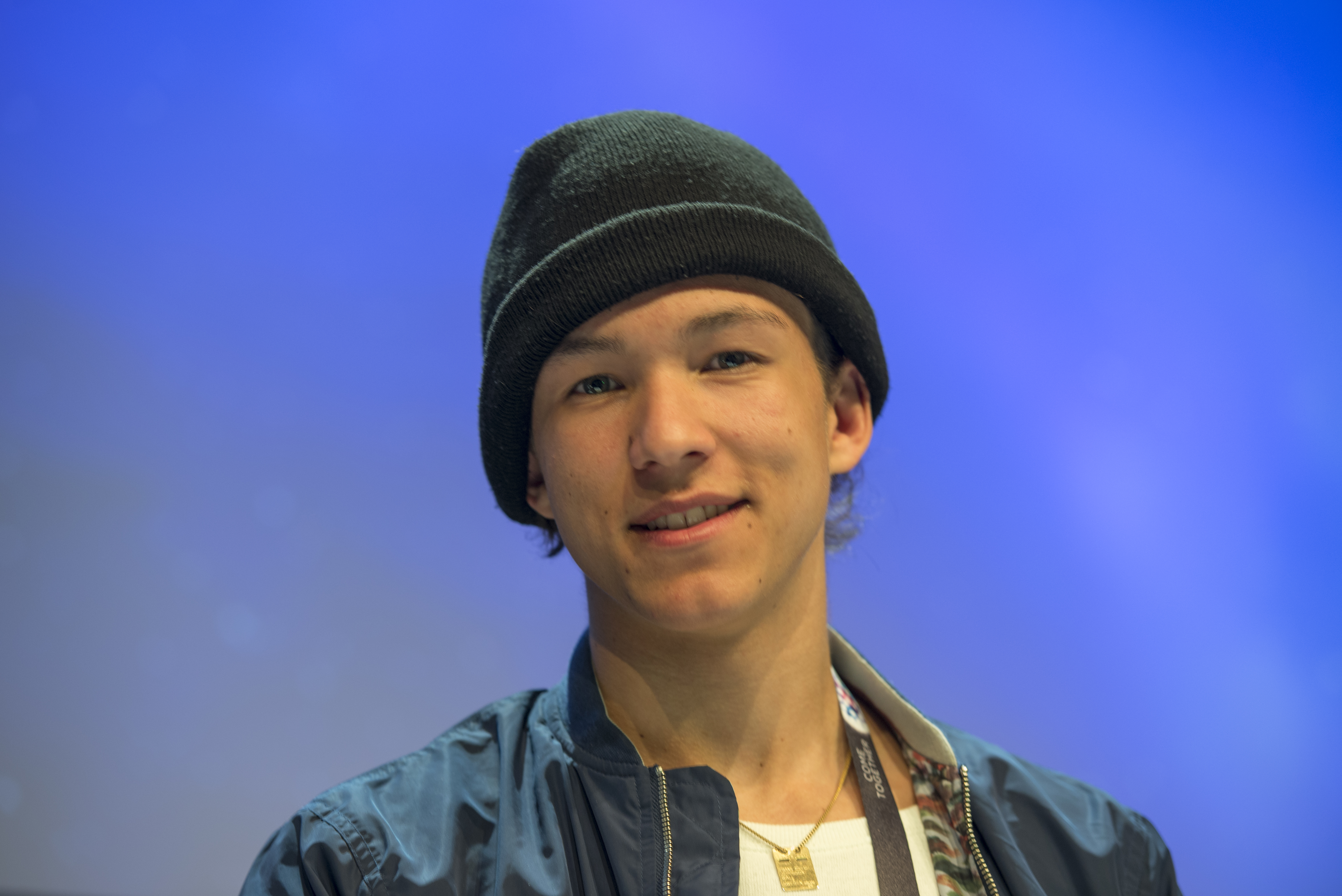 Frans at a Meet & Greet during the Eurovision Song Contest 2016 in Stockholm. (Help translate this text)